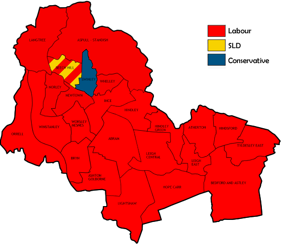 Wigan ward map with political colouring.